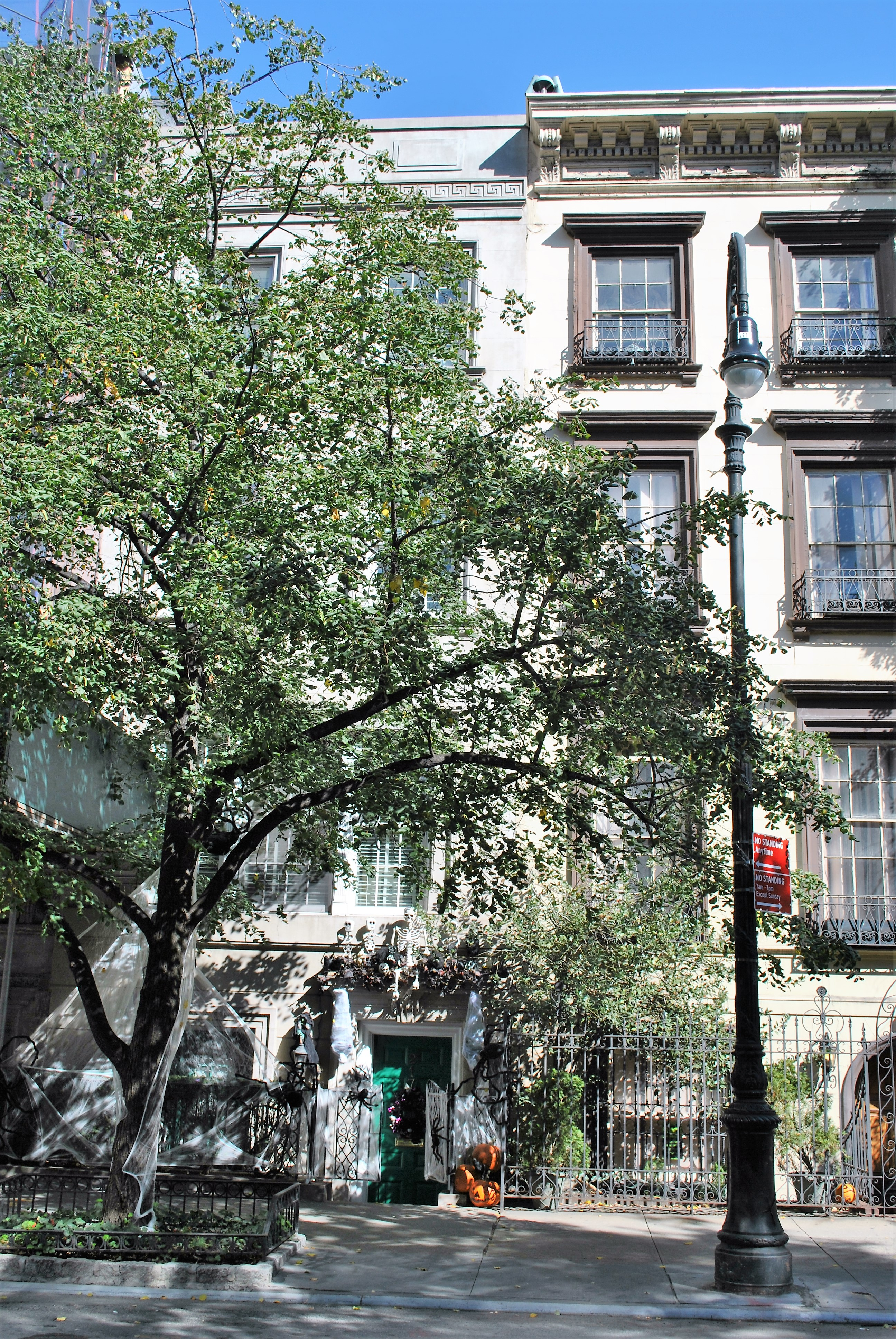 Image originally published in Queer Places: Retracing the Steps of LGBTQ people around the World Authored by Elisa Rolle